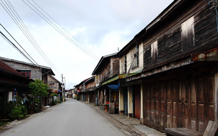 Chiang Khan is a district (amphoe) in the northern part of Loei Province, northeastern Thailand.